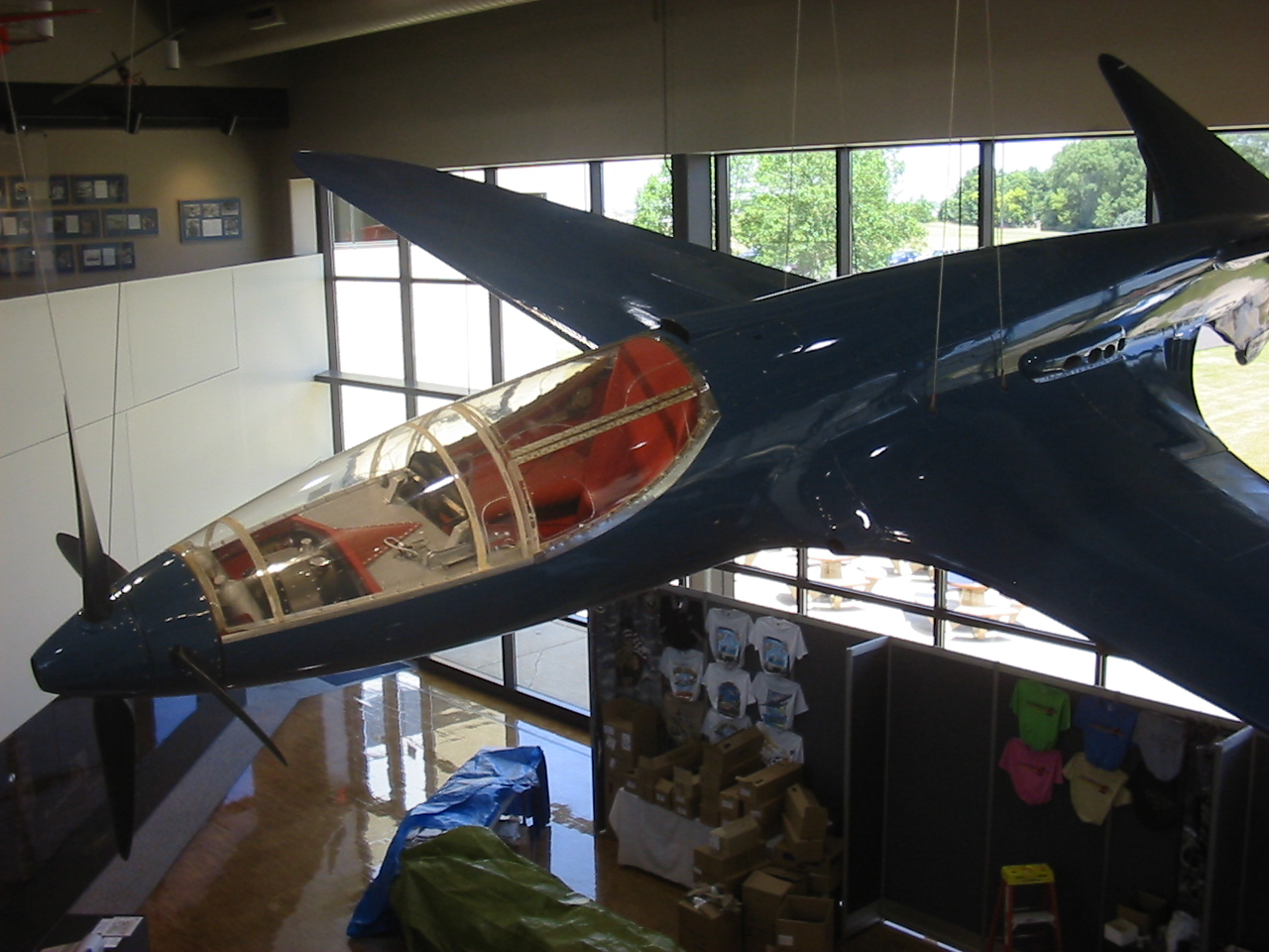 This is the real, one and only, Bugatti 100 air-racer. Two V8 engines behind the cockpit, each one drives its own 2 bladed prop, and they're geared to go in opposite directions. I don't believe it flew competitively in whatever racing it was built for- the Second World War got in the way and when that was over, engine and aerodynamic technology had left this beautiful, unique, airplane, behind. As the blue color indicates, although "Bugatti" is an obviously Italianate name, M. Bugatti lived and worked in France. I expect this beautiful plane was not quite as nice looking when it first arrived at the Experimental Aircraft Association facility at Oshkosh, or maybe it was fixed up between wherever it had been languishing and the home it finally found. The photo hardly does it justice, its stunning to look at in person, and it hangs in space, gear up, canopy closed, just like it was born to do. I have a nose-to-tail composite of two frames at: AI_2005_Oshkosh_Otter 269